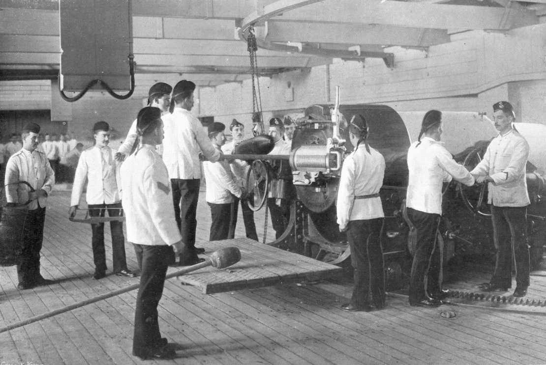 Sponge and load. Photograph showing training with British BL 9.2 inch naval gun, circa. 1896. This is a 9.2 inch breech-loading gun Mk V, VI or VII of 22 tons. Projectile of 380 lb, weight of charge: 170 lb of powder, velocity 2,065 ft per second.[1] Copyright: Hudson & Kearns